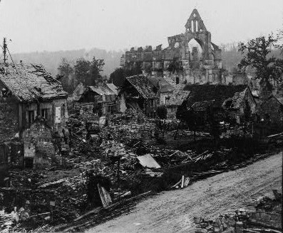 Longpont, Aisne (France), showing the destruction of the First World War.